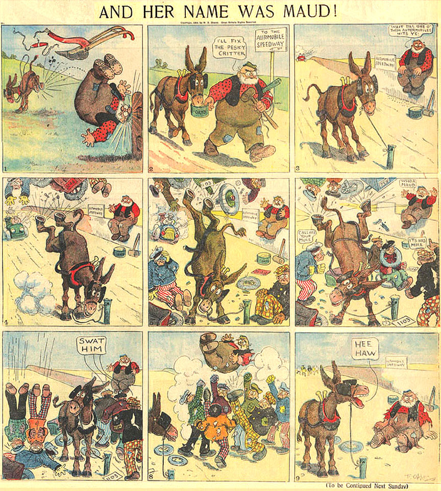 1904 cartoon, And Her Name Was Maud.